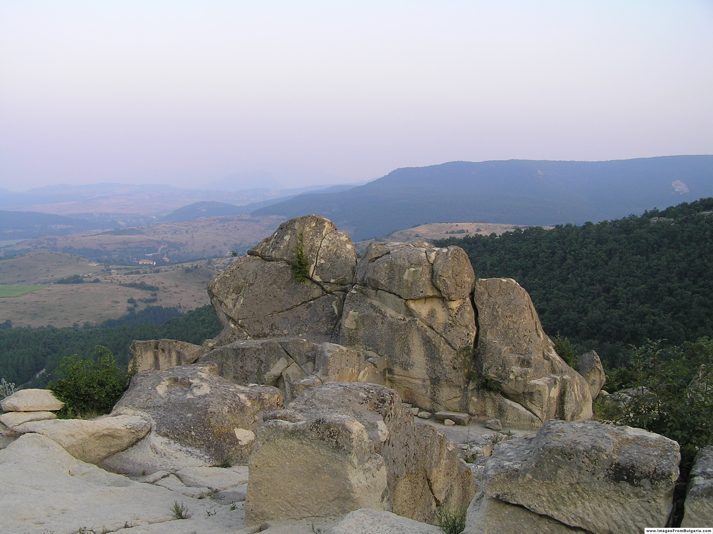 Perperikon - ancient town in the Rhodope Mountains